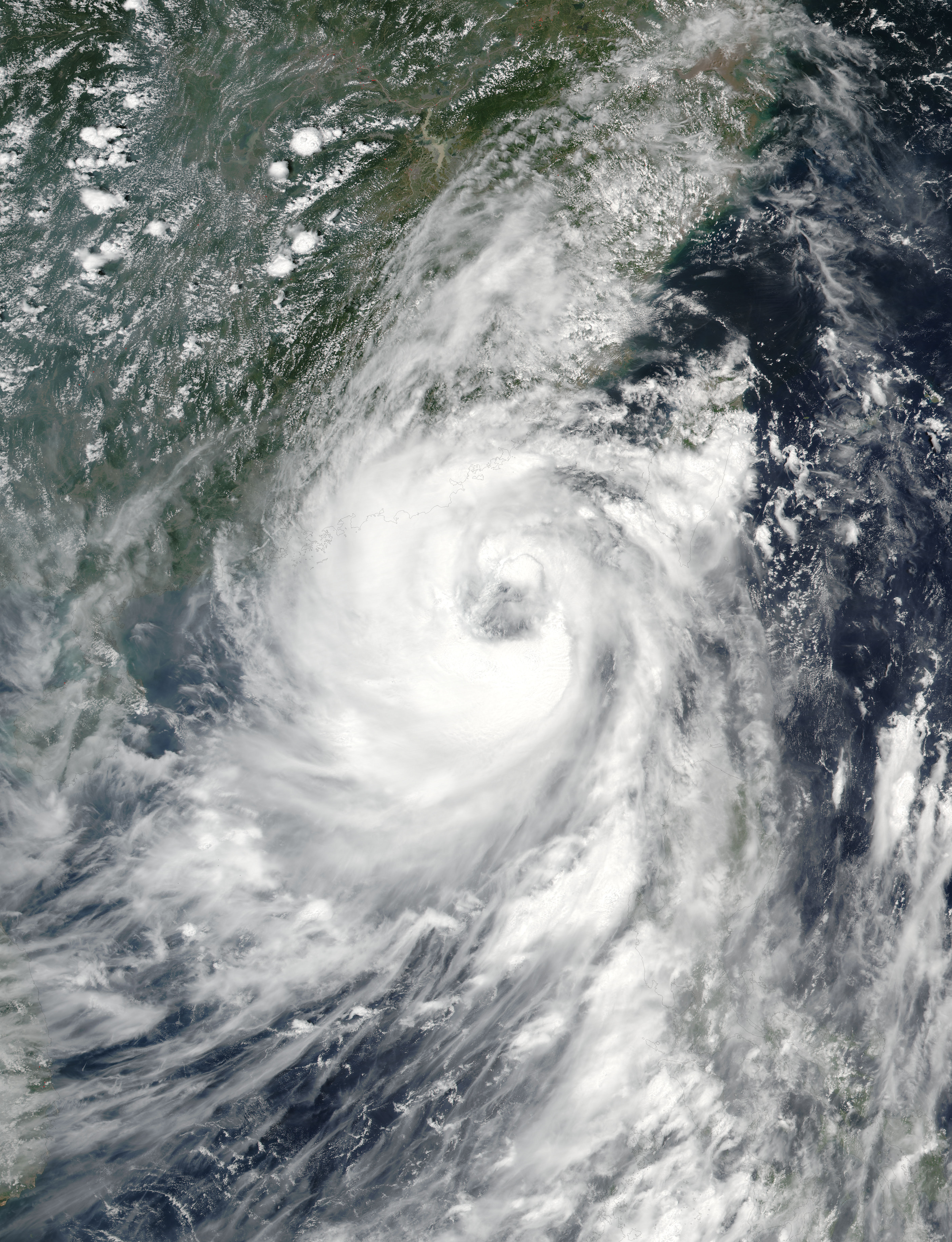 Severe Tropical Storm Nida approaching Guangdong, China on August 1, 2016. 中文（香港）: 強烈熱帶風暴妮妲於2016年8月1日接近中國廣東。